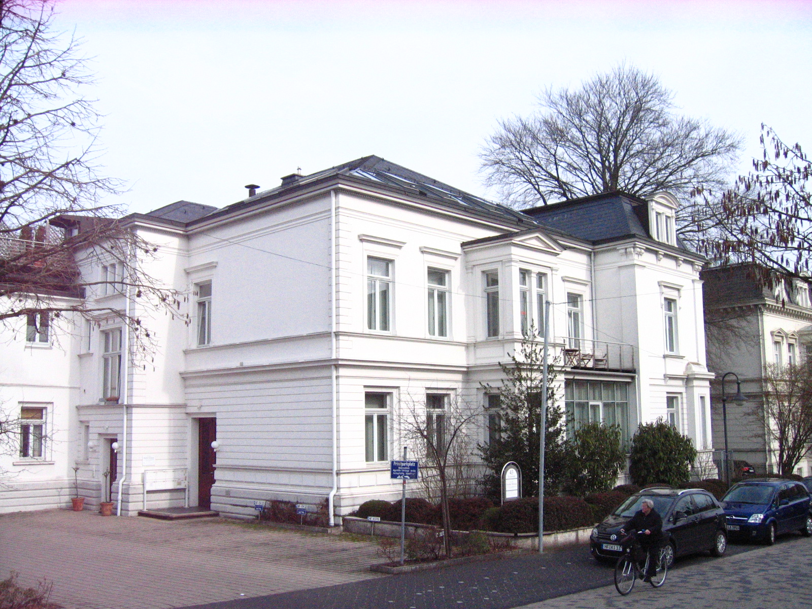 in Bünde, District of Herford, North Rhine-Westphalia, Germany.